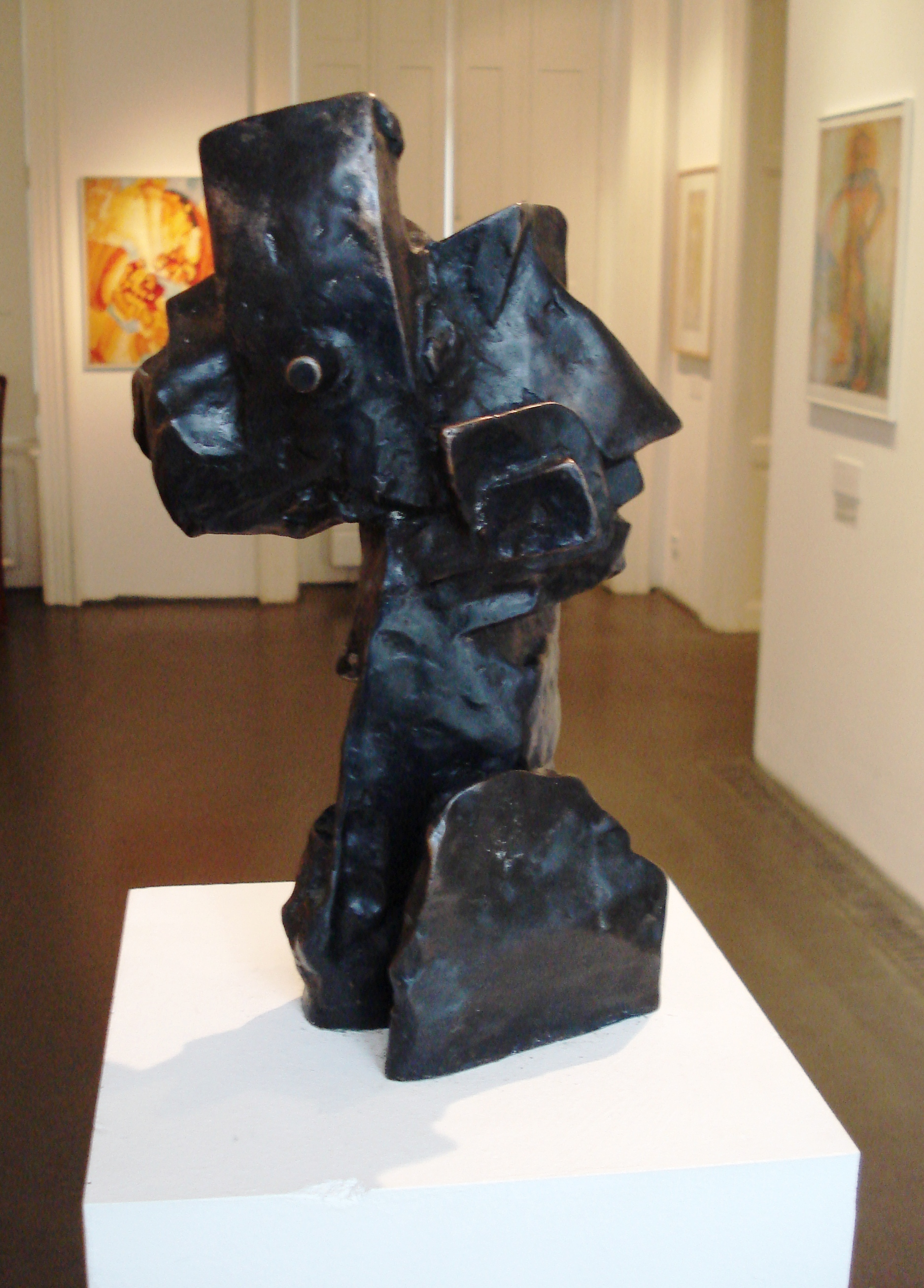 Woman's head by Otto Gutfreund. 1912-13